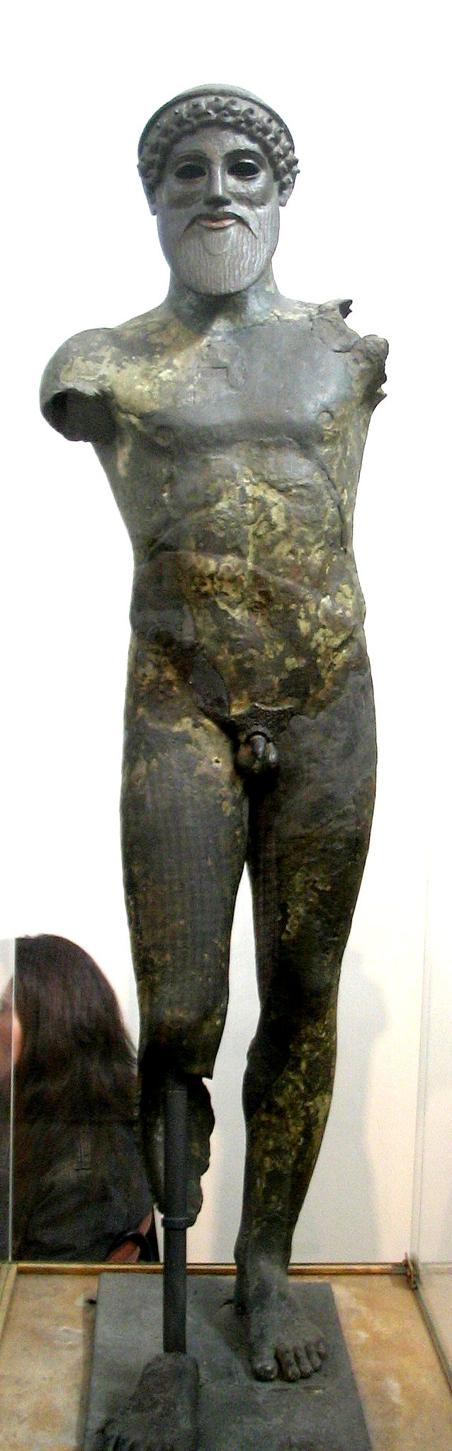 Bronze cult image of Poseidon, recovered from the sea off Boeotia, Greece. The human-sized image now resides in the National Archaeological Museum in Athens.